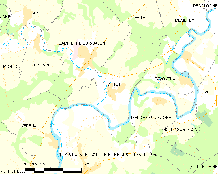 Map of French municipality